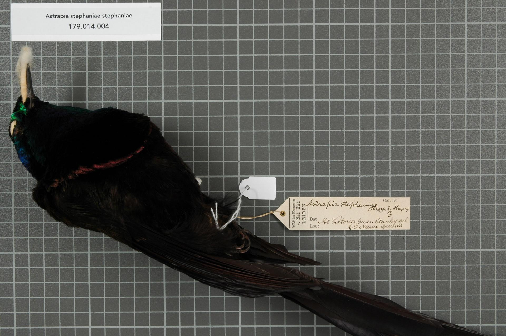 Astrapia stephaniae stephaniae (Finsch, 1885)